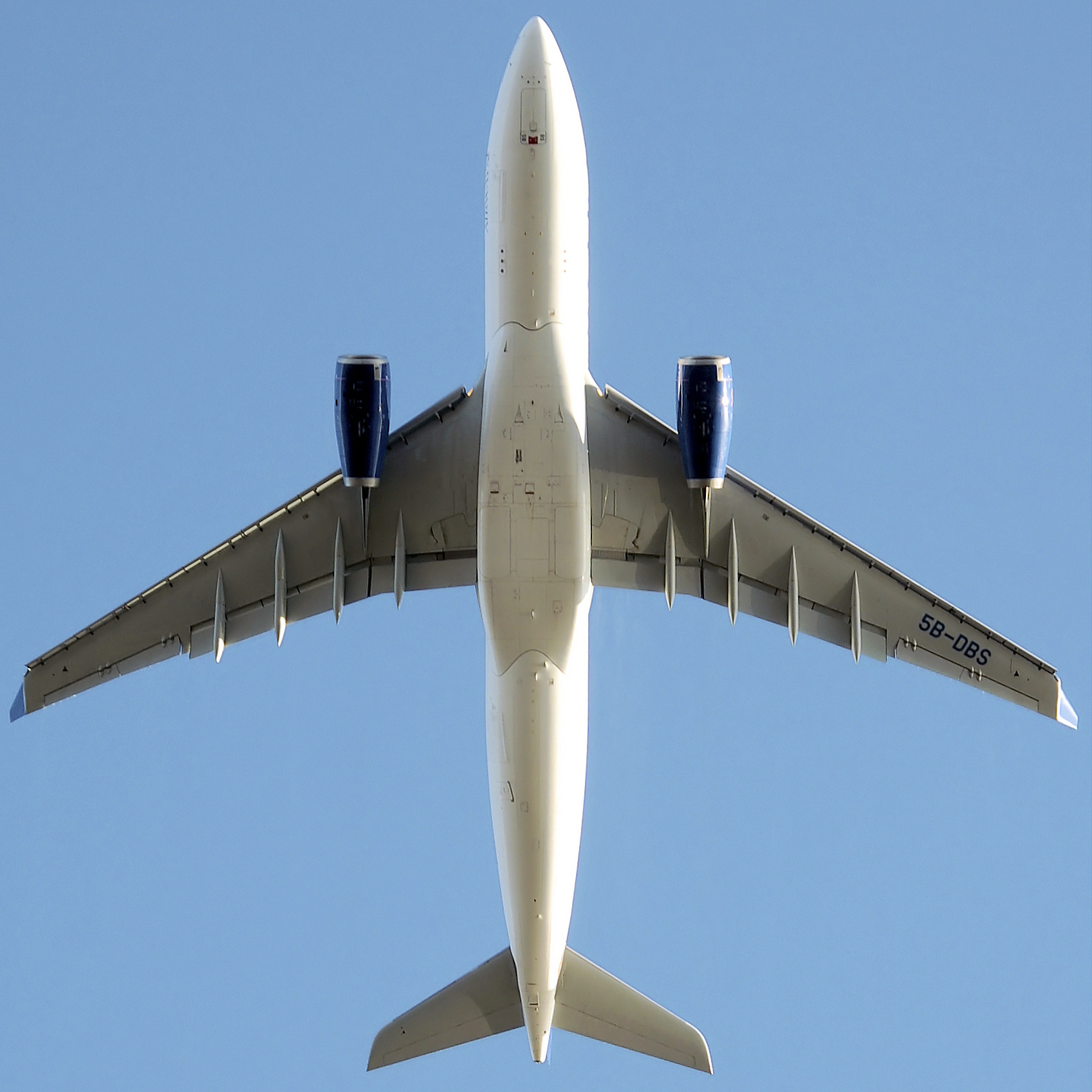 Cyprus Airways Airbus A330-200 (5B-DBS) takes off from London Heathrow Airport, England. The undercarriages have finished retracting.